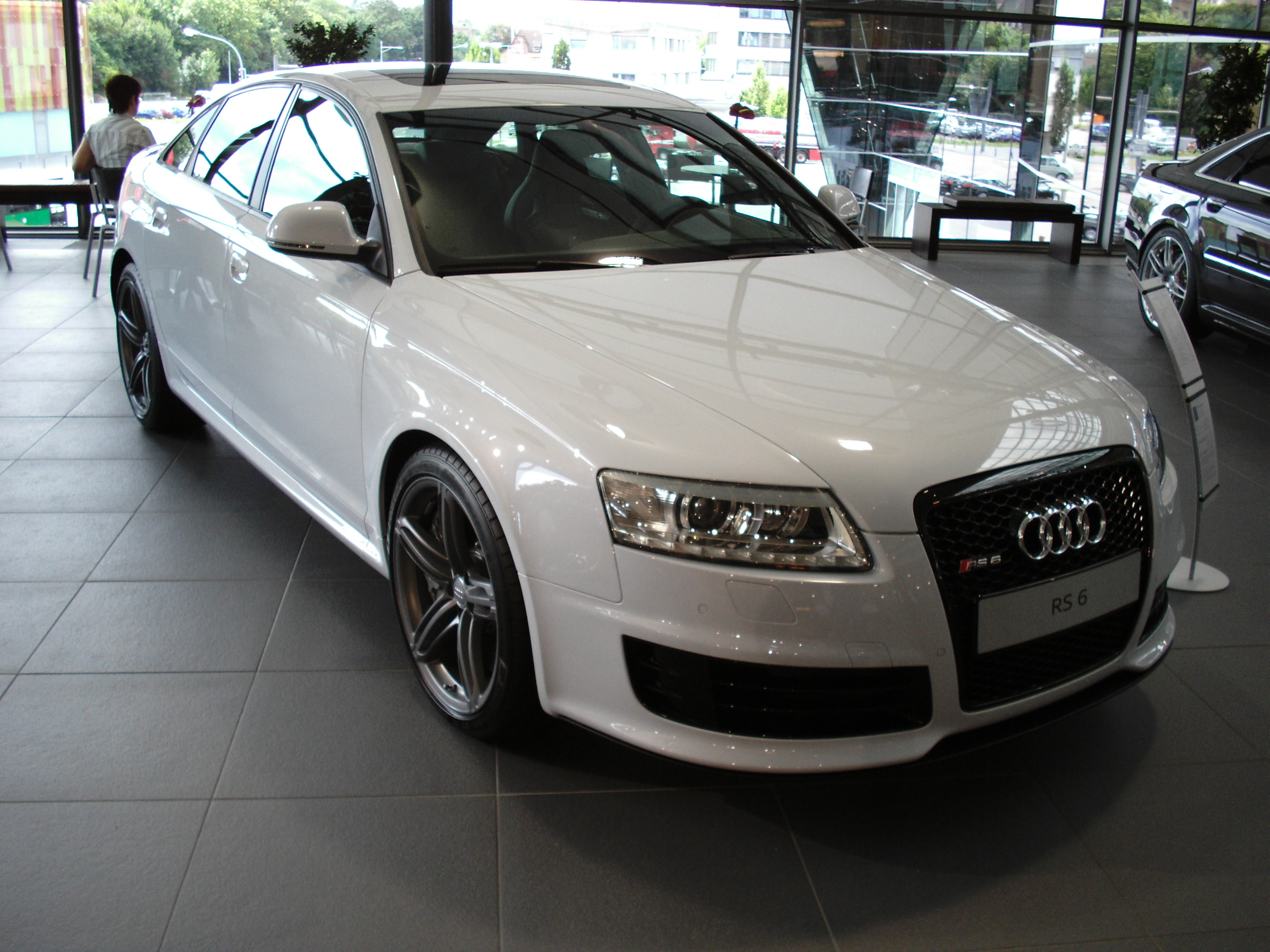 Front view Audi RS 6 C6 Limousine at the Audi Forum Neckarsulm